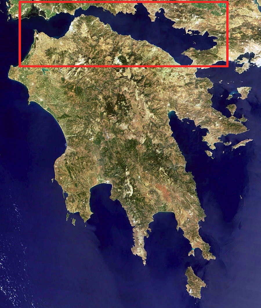 Golf of Corinth